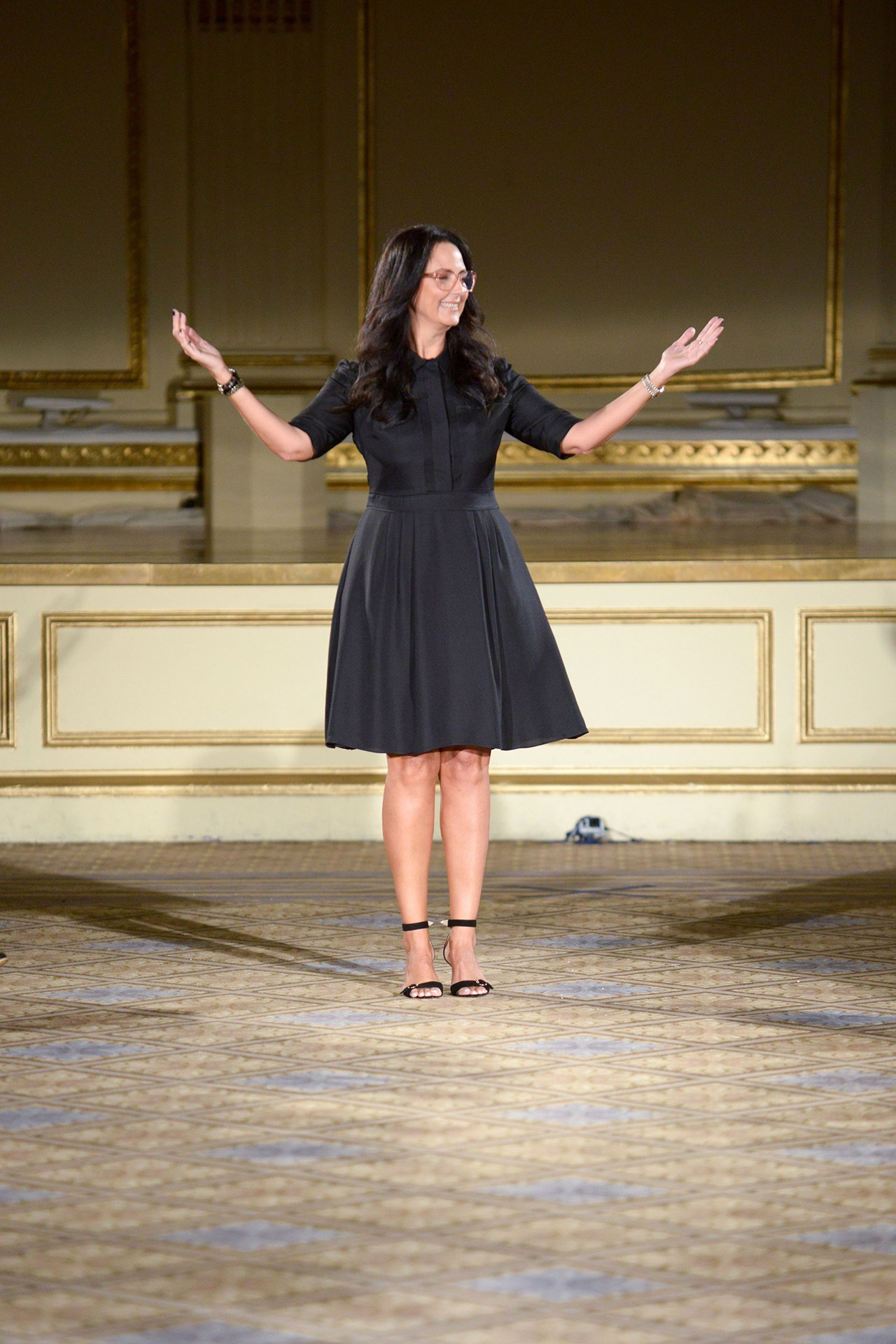 Designer Berta at the end of her runway show in New York City on October 9th, 2015.